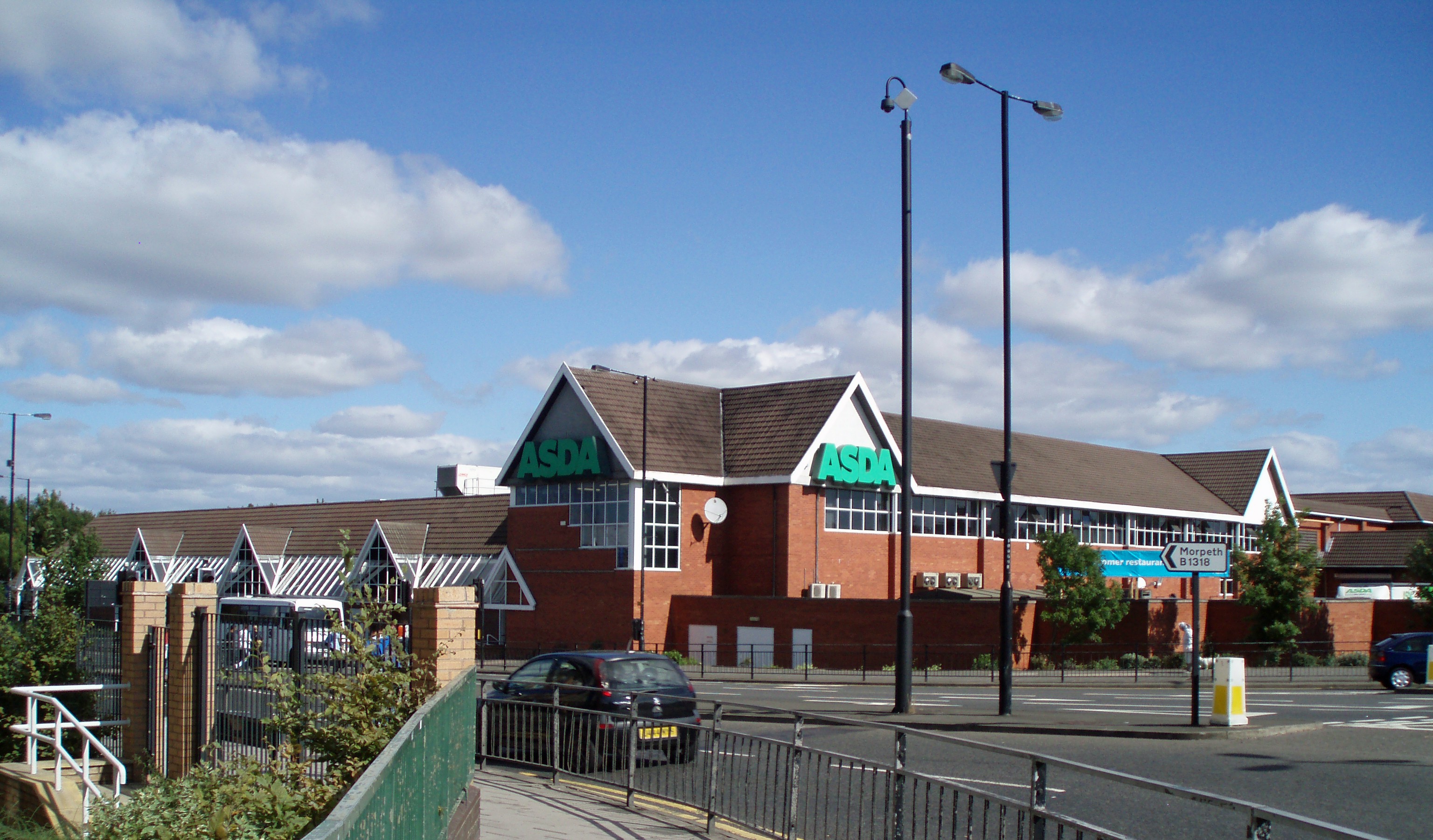 This is a photograph of the ASDA Gosforth superstore, as seen from the Great North Road, Gosforth, Newcastle upon Tyne, England